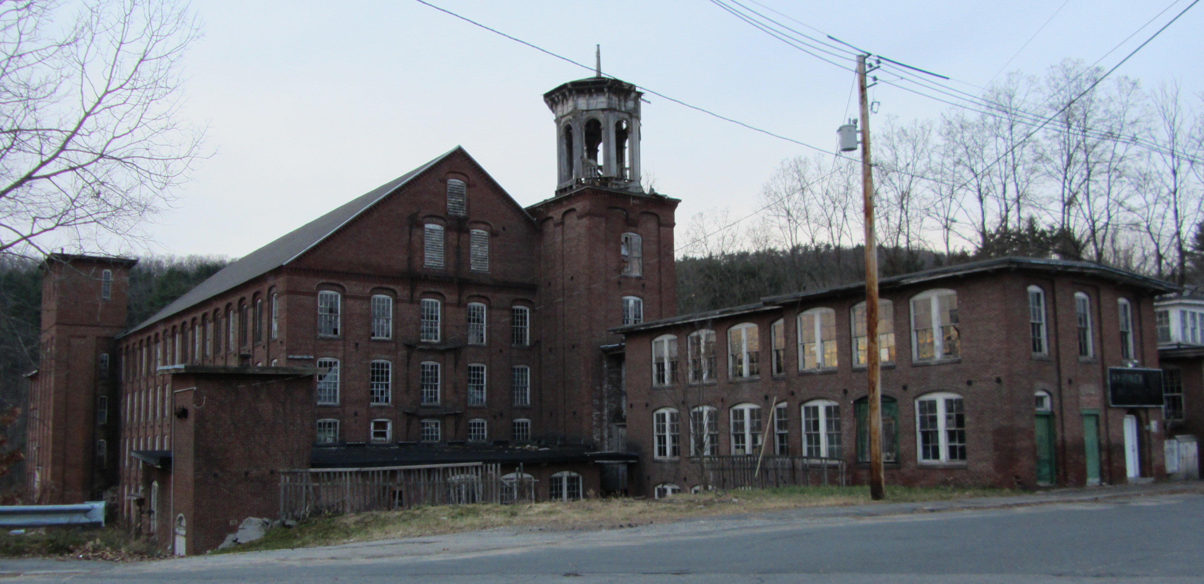 Former mill of Gilbert Manufacturing Co. in Gilbertville Historic District, Hardwick, Massachusetts, on the National Register of Historic Places